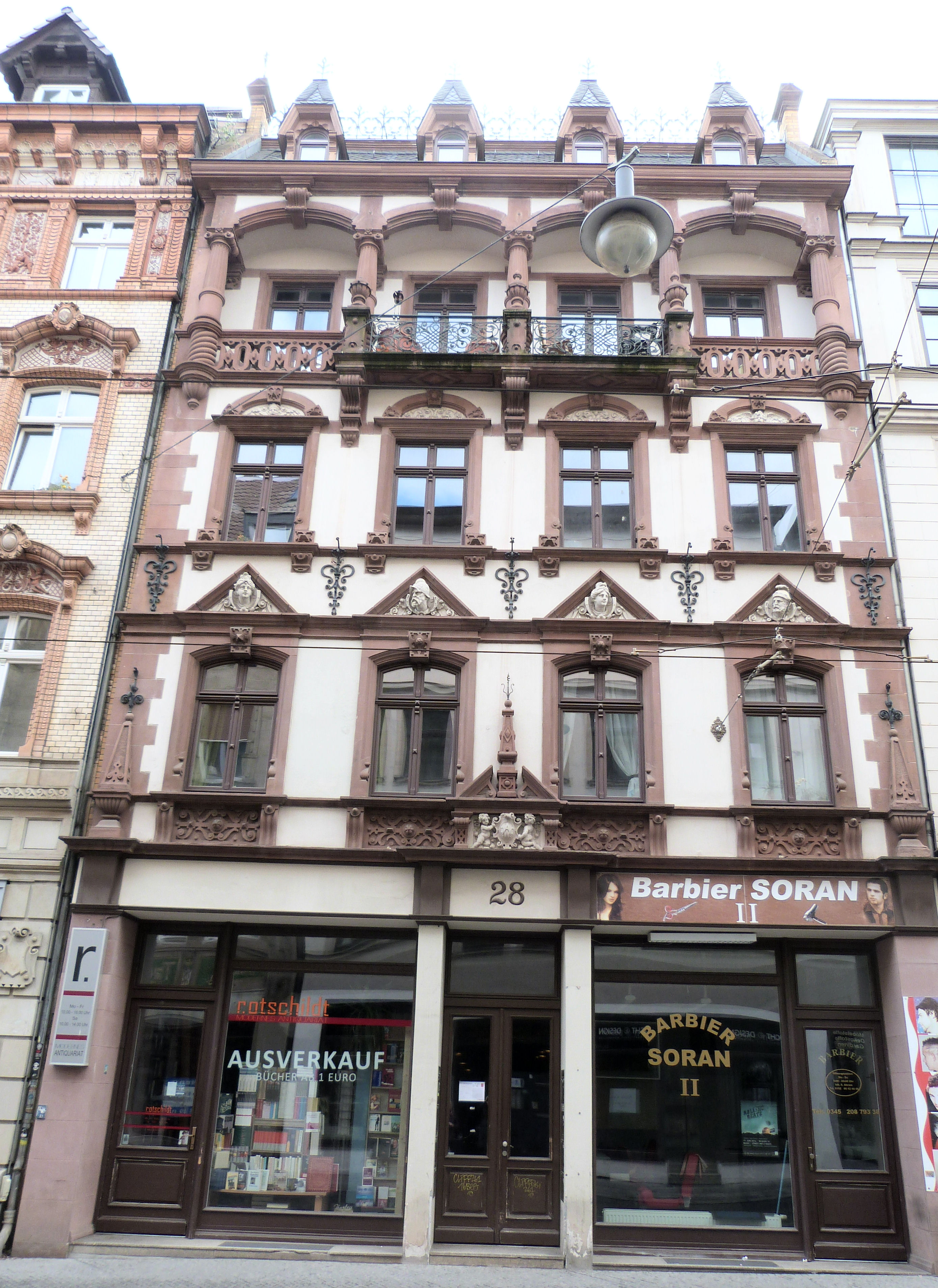 House No. 28, Grosse Ulrichstrasse, Halle (Saale)